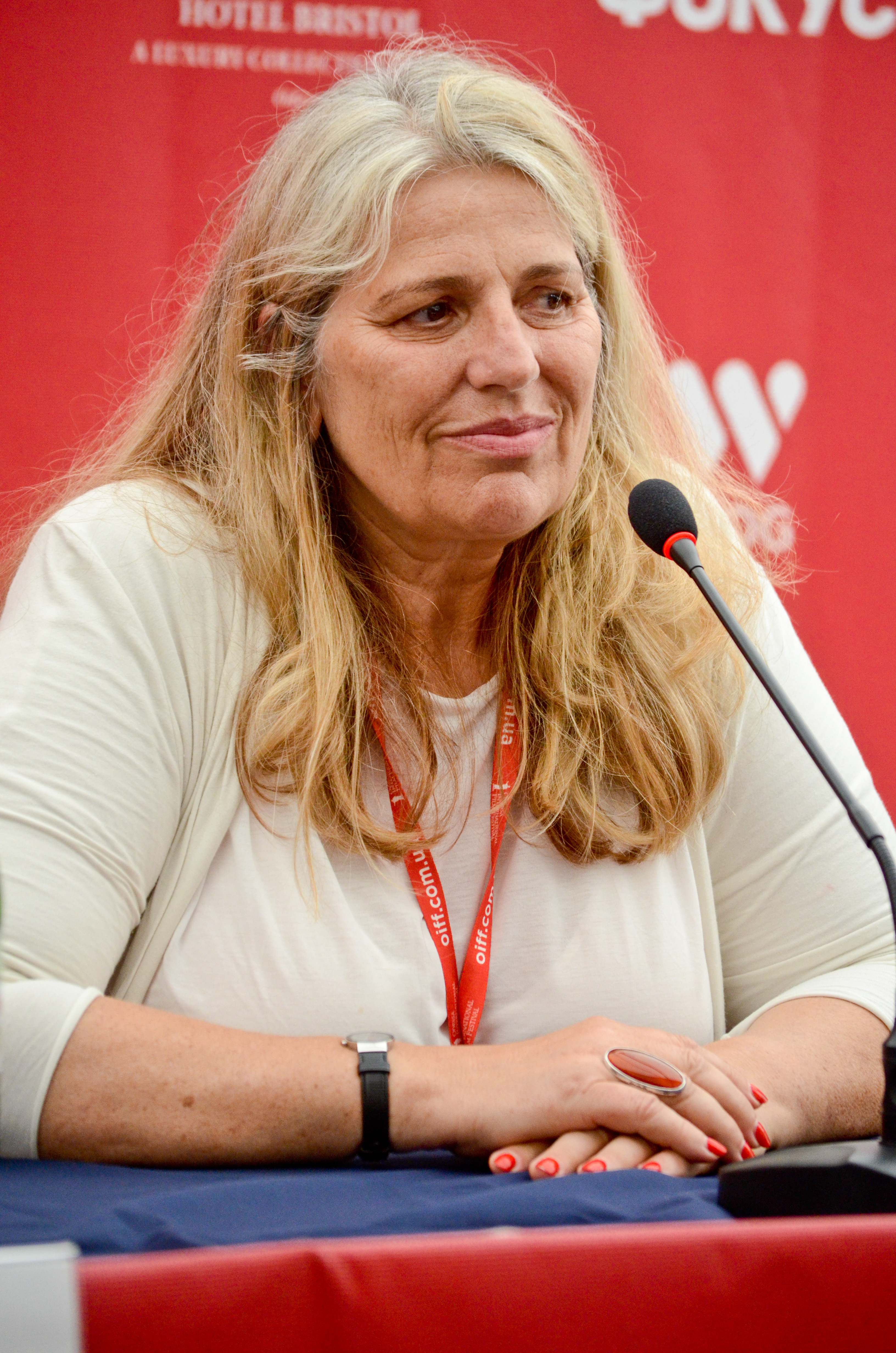 French filmmaker Brigitte Sy at the 6th Odessa International Film Festival.